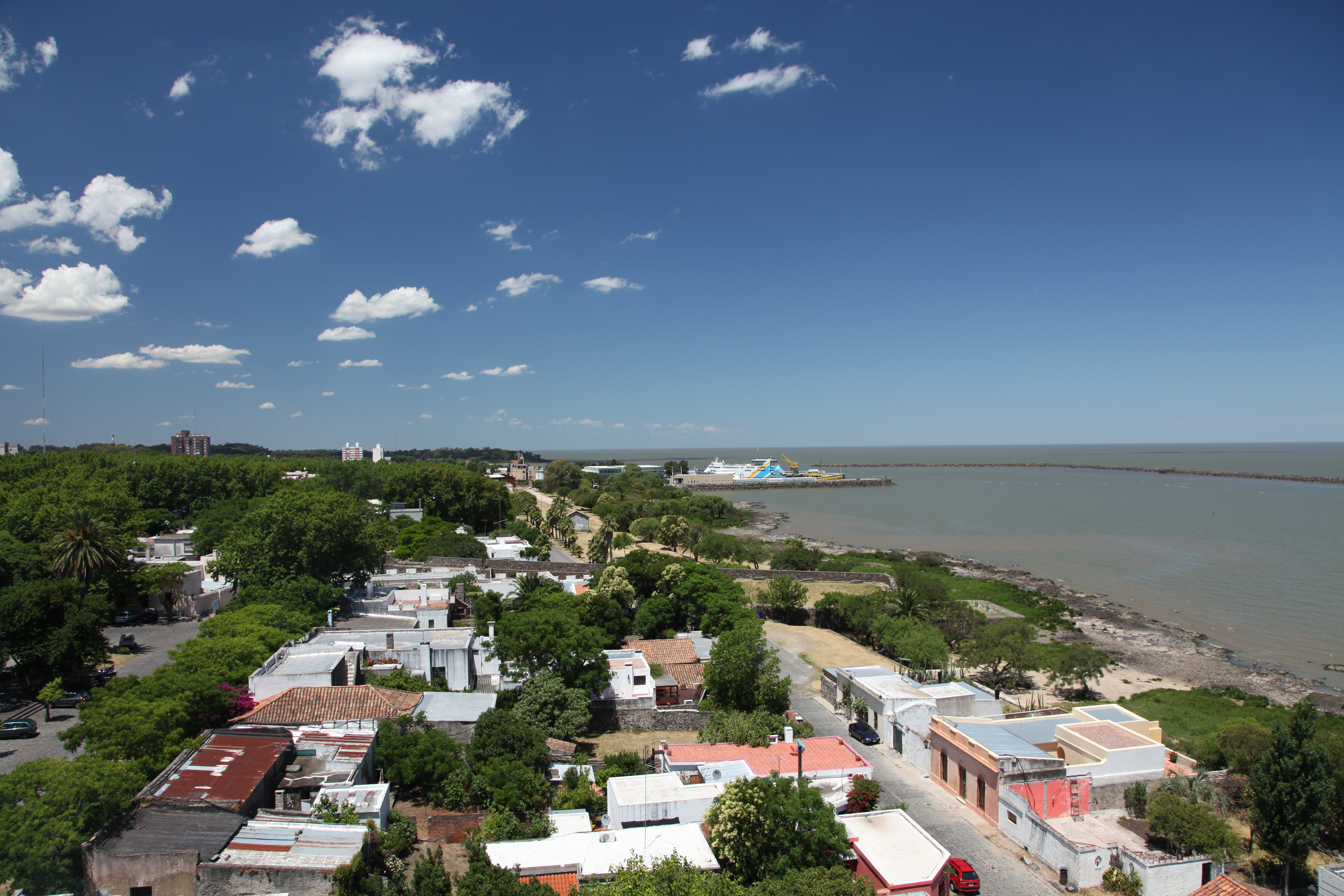 View from the lighthouse